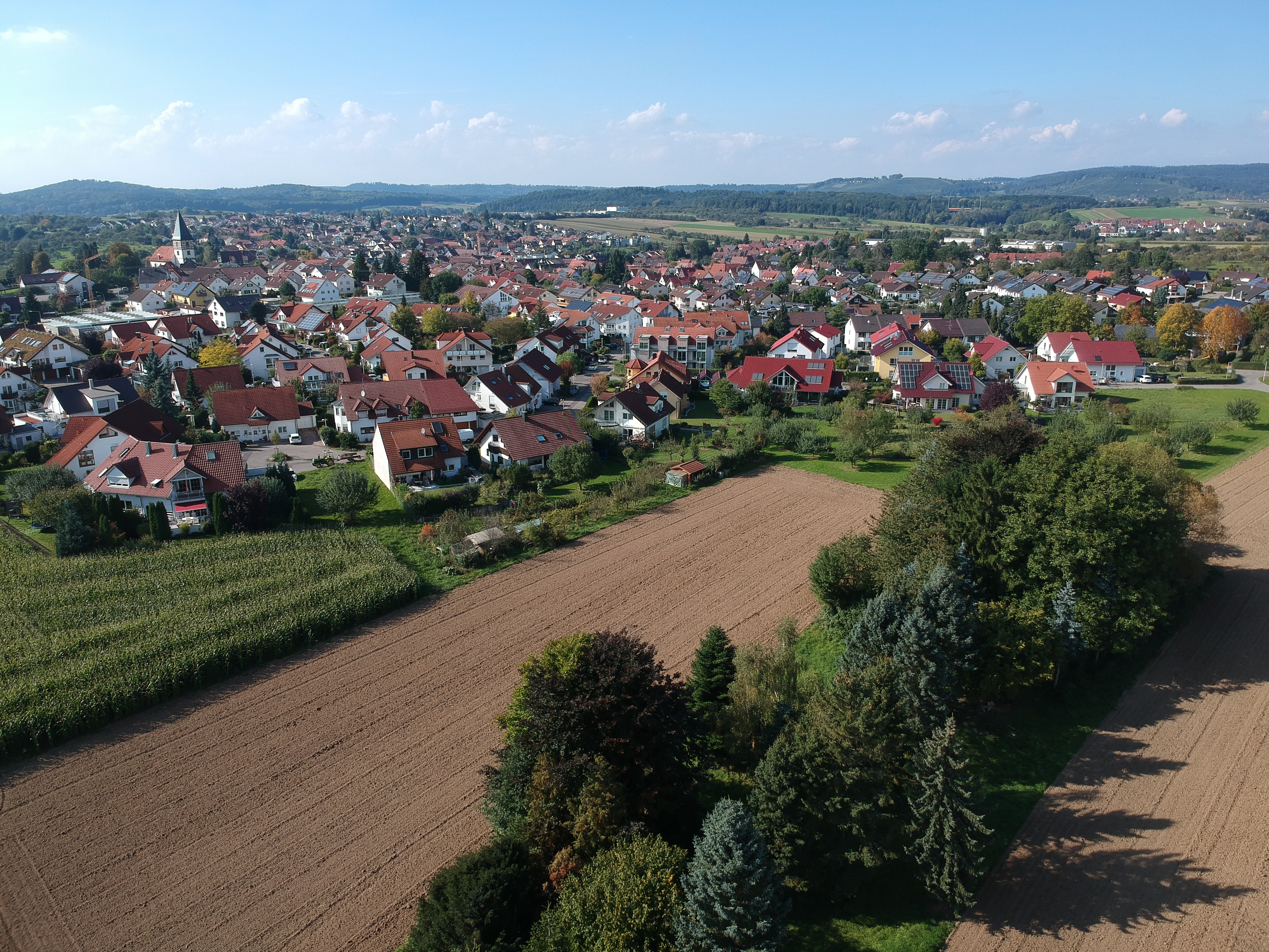 Aspach